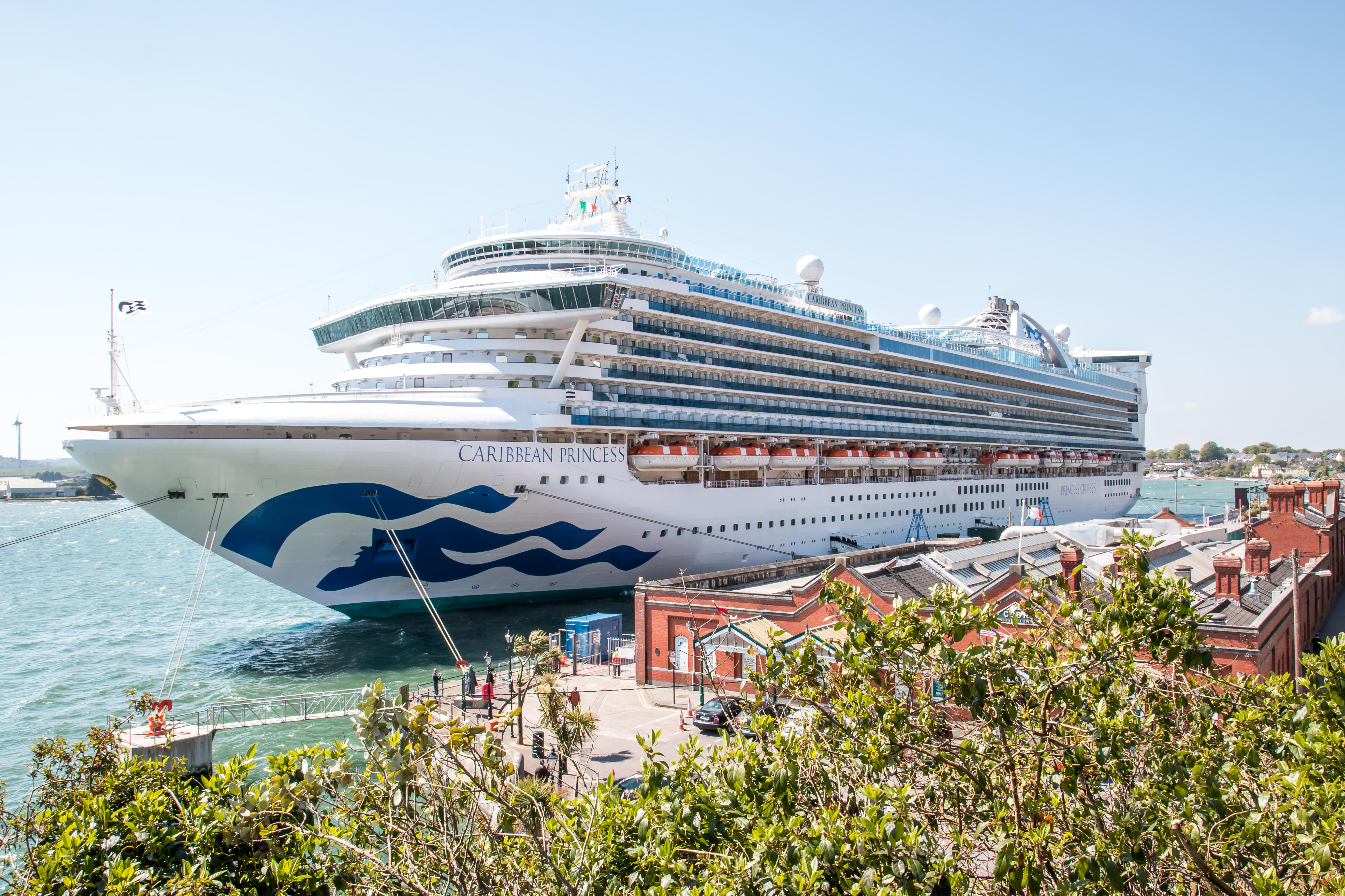 Images taken on the Princess Cruises #CaribbeanPrincess British Isles cruise May 2017